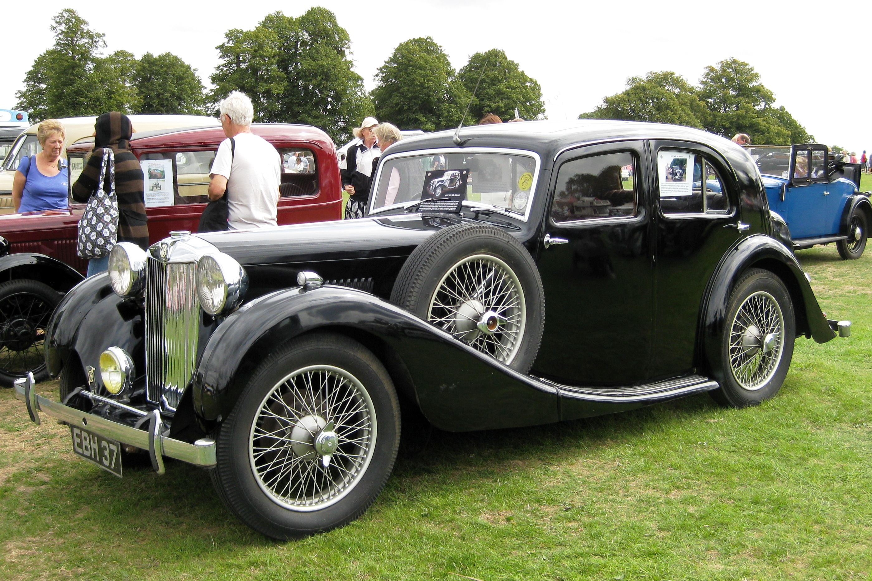 MG VA at Classic Car Show at Knebworth